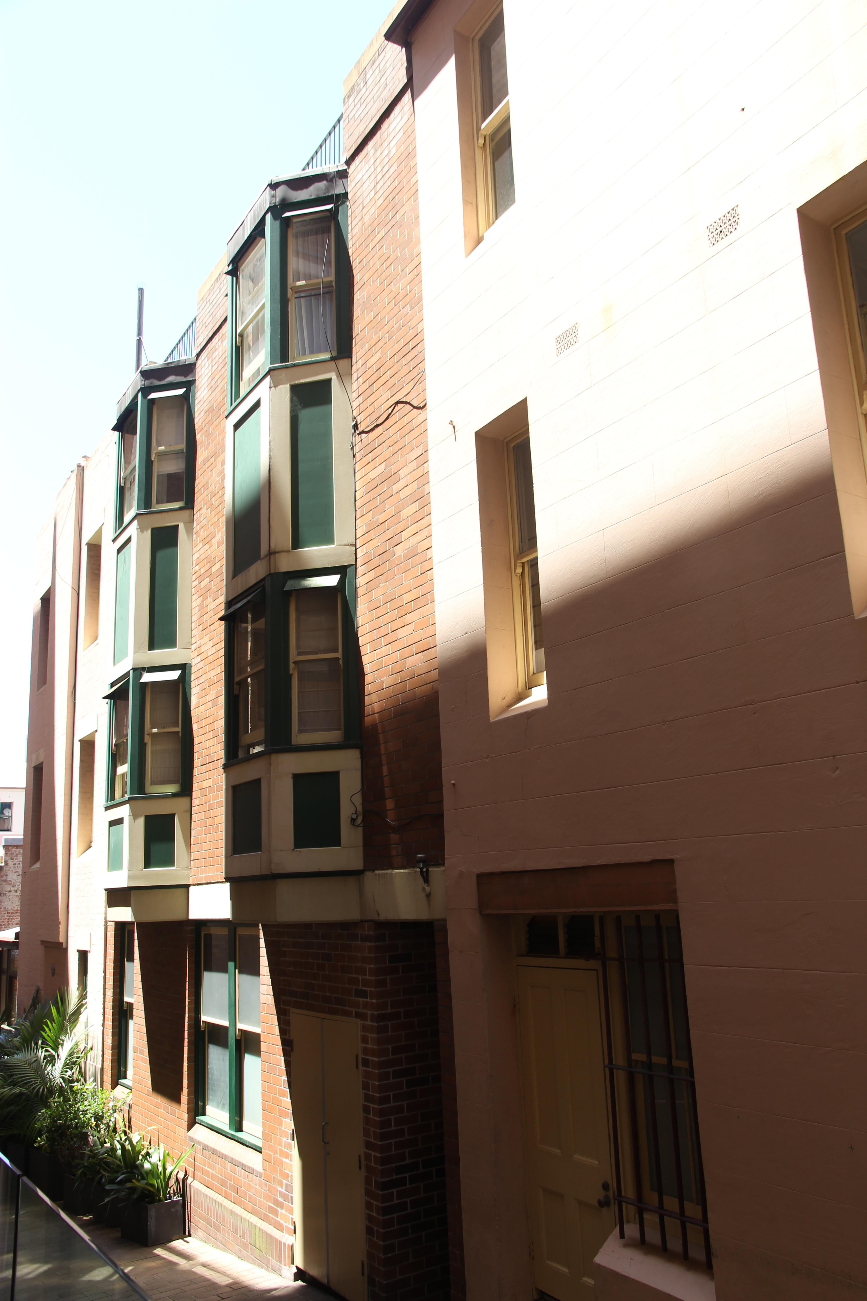 Rear of the premises backing onto Nurses Walk, known as 139-141 George Street, in The Rocks in the City of Sydney, New South Wales, Australia